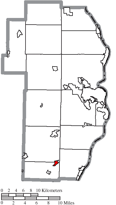 Map of the municipal and township boundaries of Jefferson County, Ohio, United States, as of the 2000 census, with the location of the village of Dillonvale highlighted. Township borders are shown only in unincorporated areas in order to differentiate incorporated and unincorporated areas more clearly.